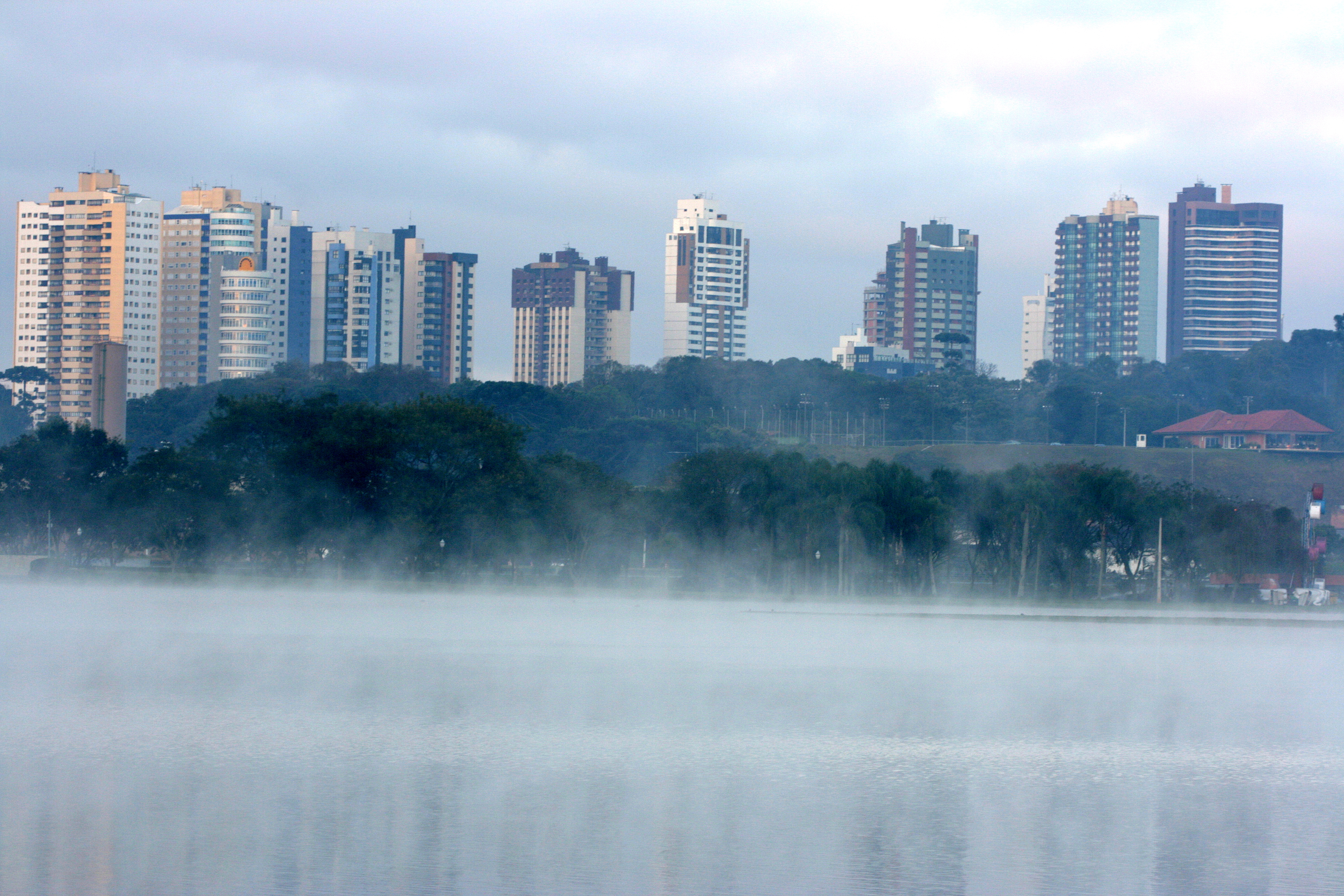 Winter skyline in Curitiba.